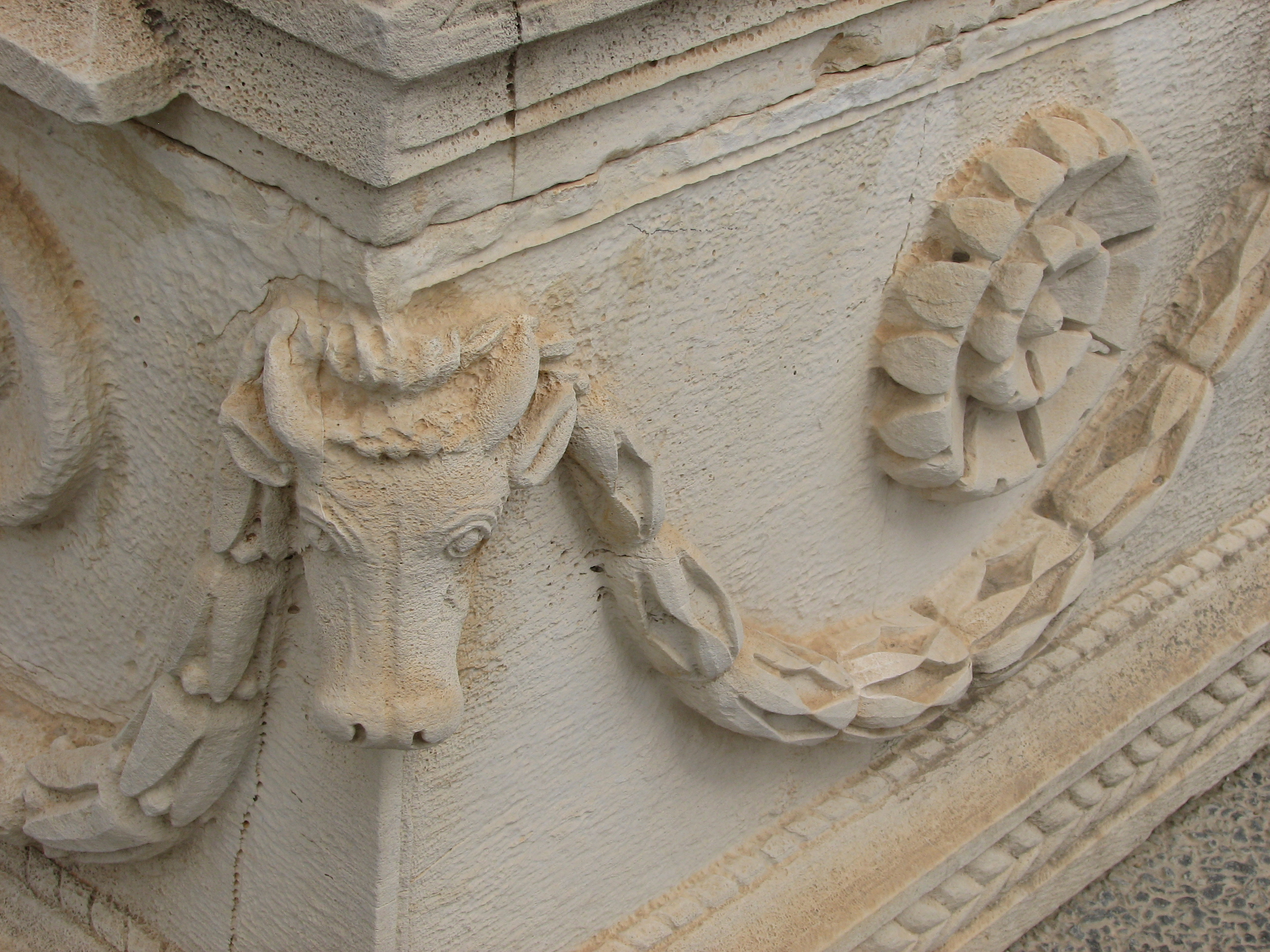 Samaritan Sarcophagus Kfar Siris (near Jenin), 3rd century CE Stone The sarcophagus is decorated with bull's heads, garlands, and a conch shell between two pediments.